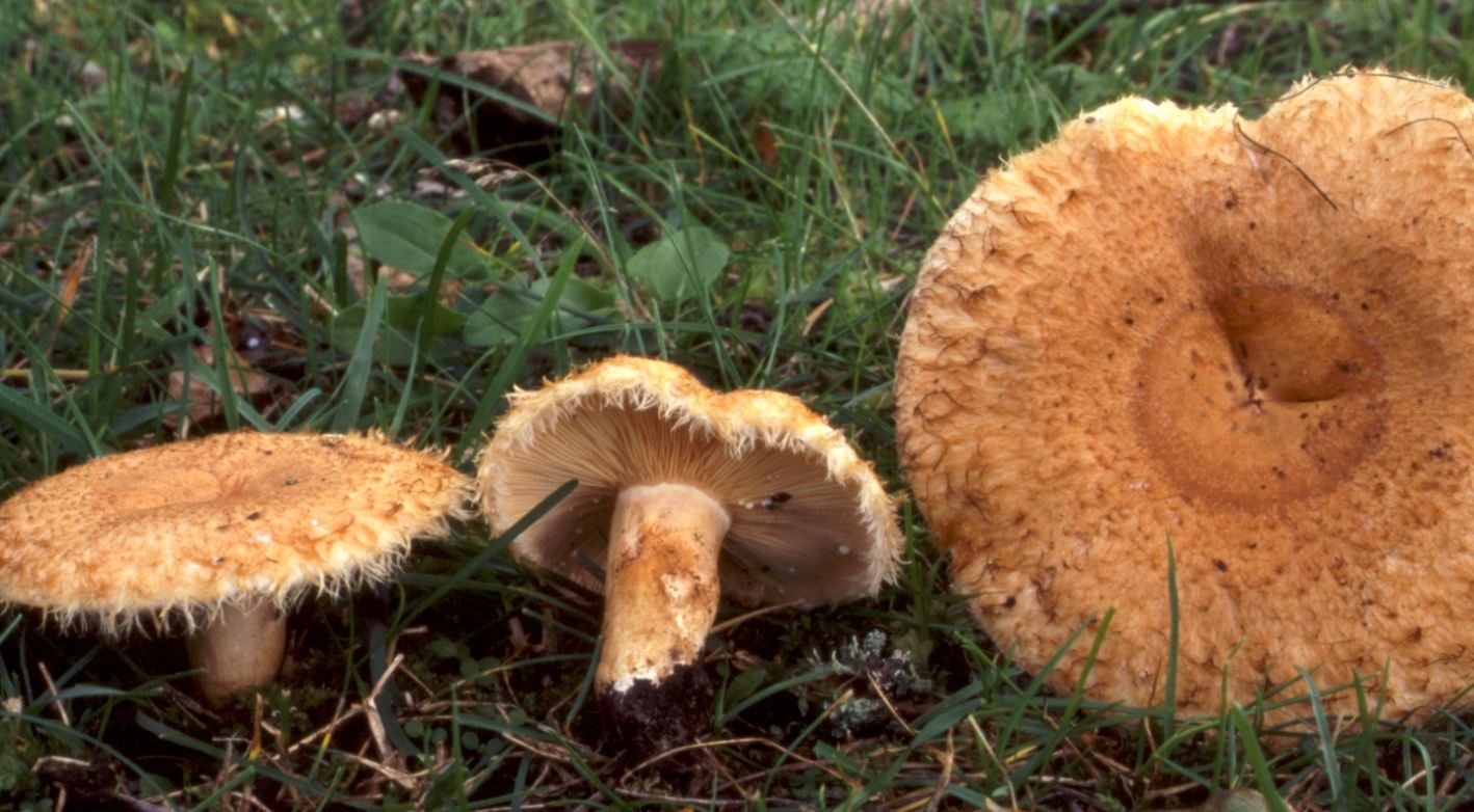 Fruit bodies of the milk mushroom Lactarius mairei Malençon. Specimens photographed in Gotland, Sweden.